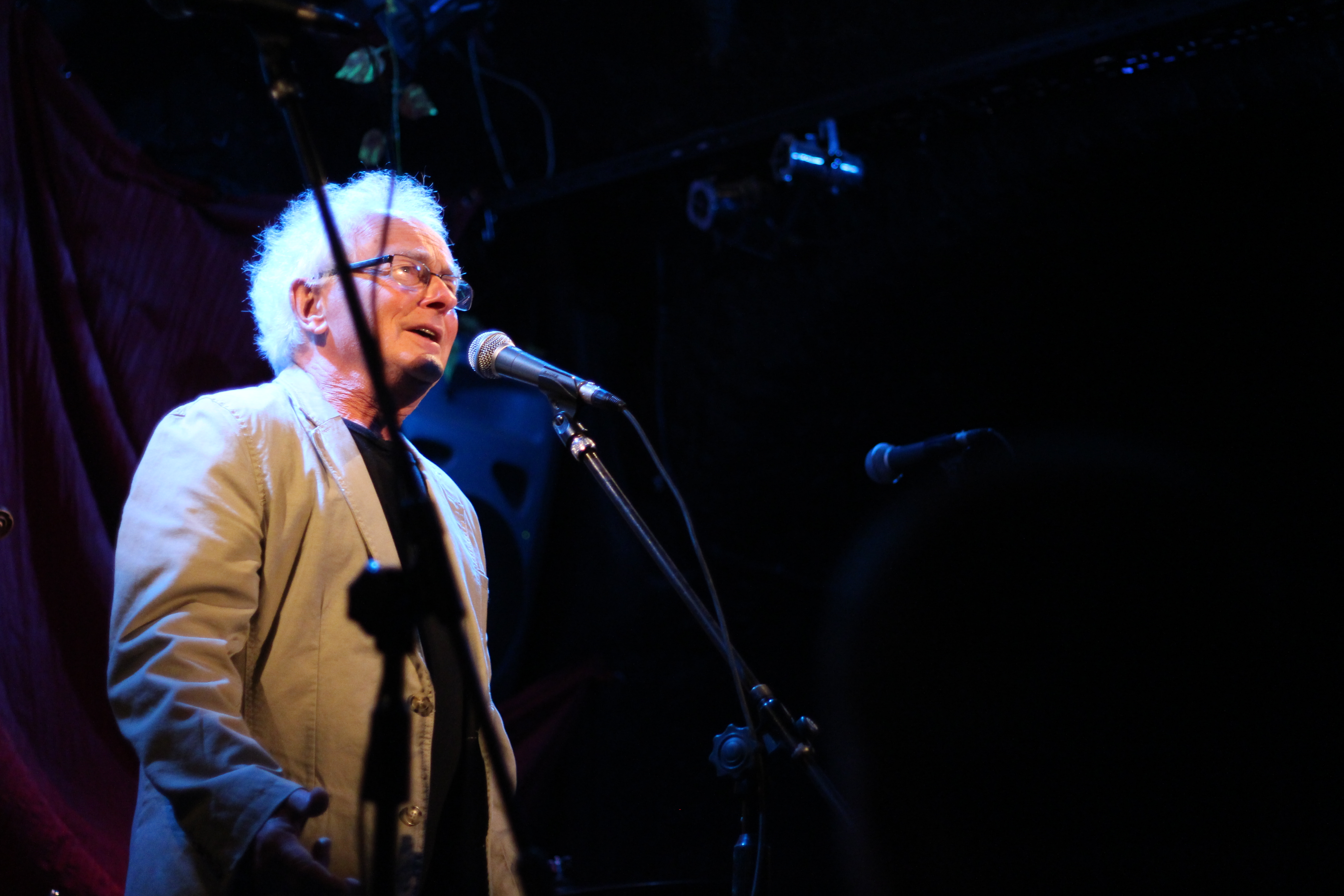 Polish actor Tadeusz Kwinta onstage during the evening for Ryszard Horowitz in the Piwnica pod Baranami.